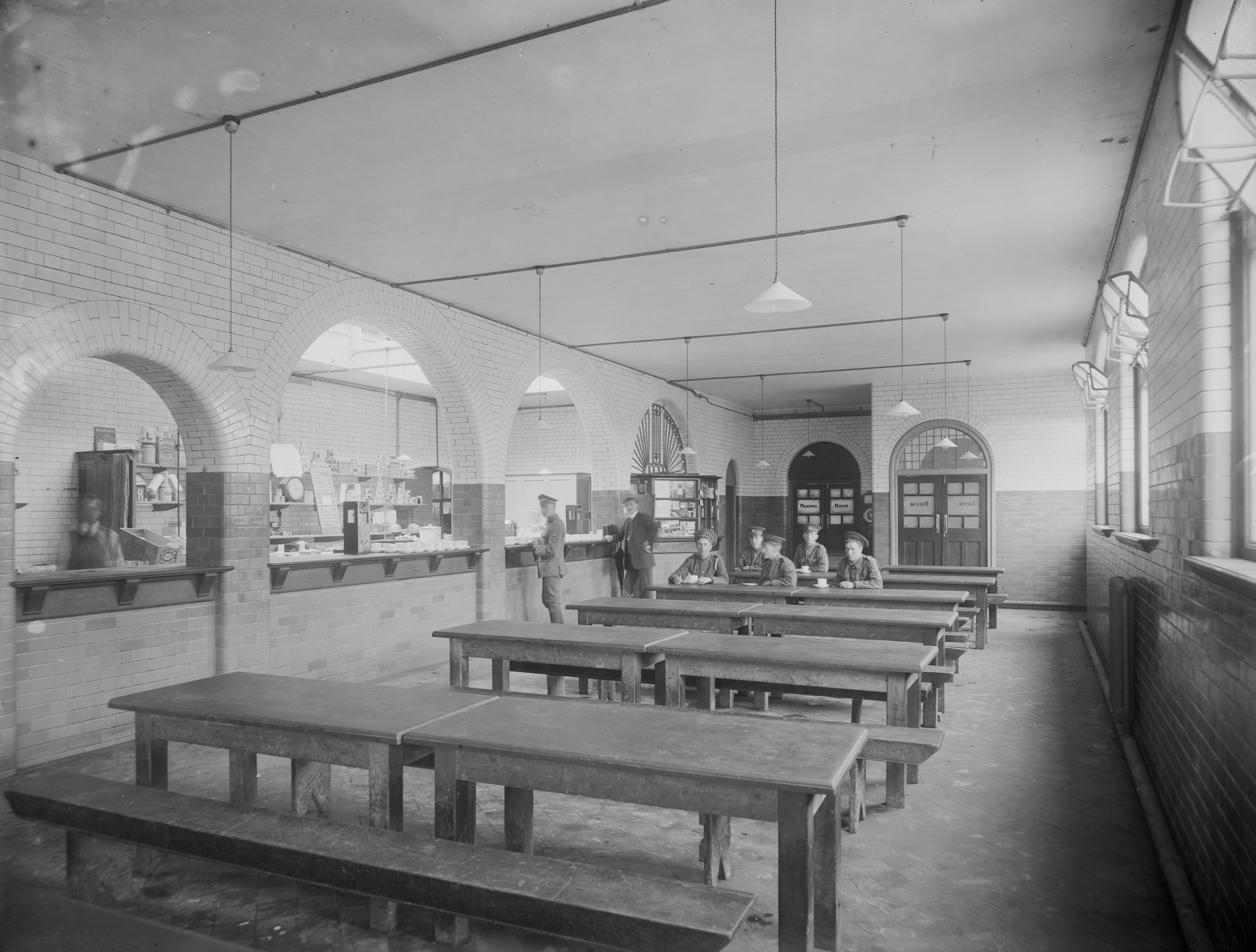 Following on from yesterday's photo of soldiers in the Reading Room at the Elise Sandes Soldiers Home at the Curragh Camp in Kildare, this photo is of the Dining Room. Thanks to macabee2012 for the following: "This is the dining room of Miss Sandes Soldiers Home in the Curragh - one of over thirty such Homes attached to army locations all over Ireland, Founded by Elise Sandes of Tralee, Co Kerry, this network of Soldiers Homes was an evangelical missionary movement designed mainly to keep young soldiers out of the pubs and provide recreational facilities - as well as a bit of religion. The first Home was in Cork and later ones were in Queesntown (Cobh), Belfast, Parkgates Dublin, Ballykinler, Derry, among other towns; there were eight Homes in India in places such as Rawal Pindi, Quetta and Lucknow. See History Ireland, vol. 13, issue 4, July/August 2005..." This photo incidentally provides invaluable information about what the soldiers were eating at the time for their supper, and how much they were paying for their grub. A blackboard behind the counter lists dishes and prices. We're assuming the cost was in pennies rather than shillings. Here they are (those that were possible to read): Eggs & Bacon 3 Two Eggs 4/5? Bacon & Tomatoes 4 Bacon & Onions 3 Bacon & Chips 3 Rissoles & Chips 3 Rissoles & Onions 3 Desserts Apple Tart & Custard 2 Treacle & Custard or Rice 1 Blancmange & Jelly 2 Rice Pudding 1 Gorgeous account in from scooter2017 of this Dining Room in the 1960s: "You could add another 50 years to this 1916 photo and little had changed. The long benches and tables were still the same. They did add a jukebox in the early 60s. It was in front of the pillar where that first soldier is standing. A record could be played for 3d. Date: Sunday, 16 July 1916 NLI Ref.: EAS_2486